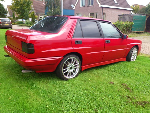 Prisma Montecarlo,omgebouwt tot HF turbo